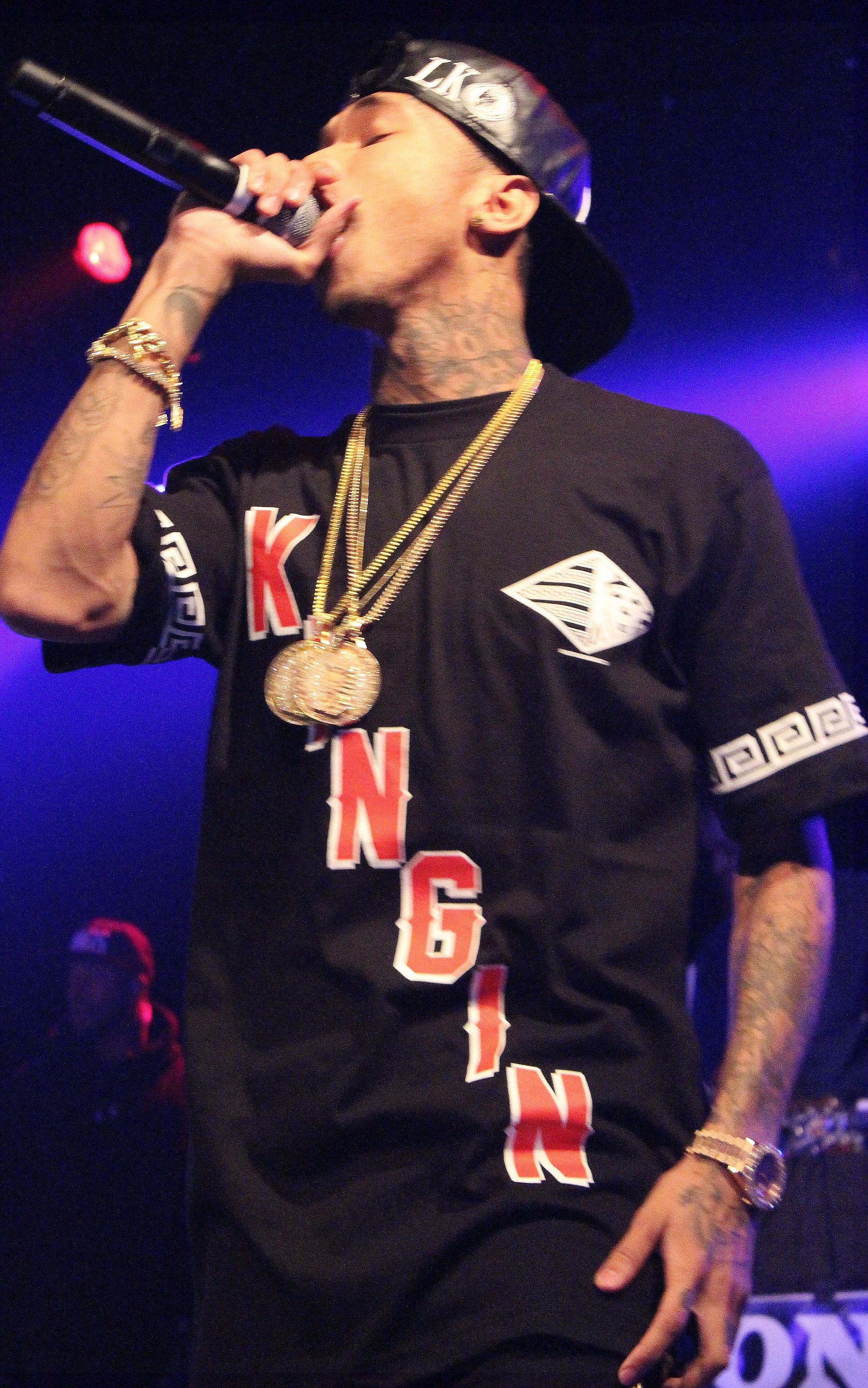 Tyga performing live in 2013